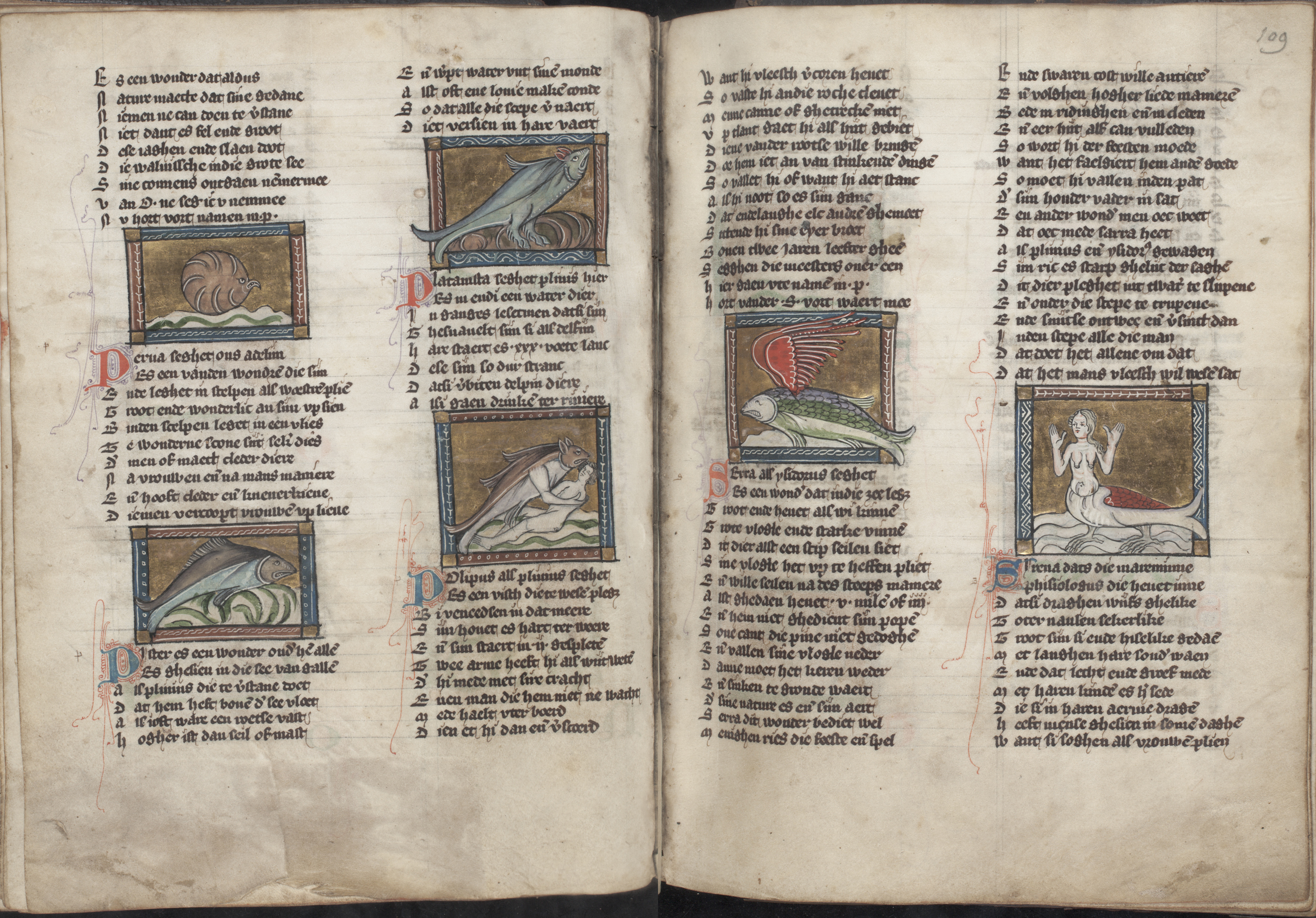 Lefthand side folio 108v and righthand side folio 109r from Der naturen bloeme (KB KA 16) by Jacob van Maerlant Miniatures on the left folio 108v Perna (oyster) Pister Platanista (Gangetic dolphin) Polipus See these miniatures on the website of the KB: Perna (oester) - Pister - Platanista - Polipus Miniatures on the right folio 109r Serra (saw-fish) Syrena (syren) See these miniatures on the website of the KB: Serra - Syrena (sirene)